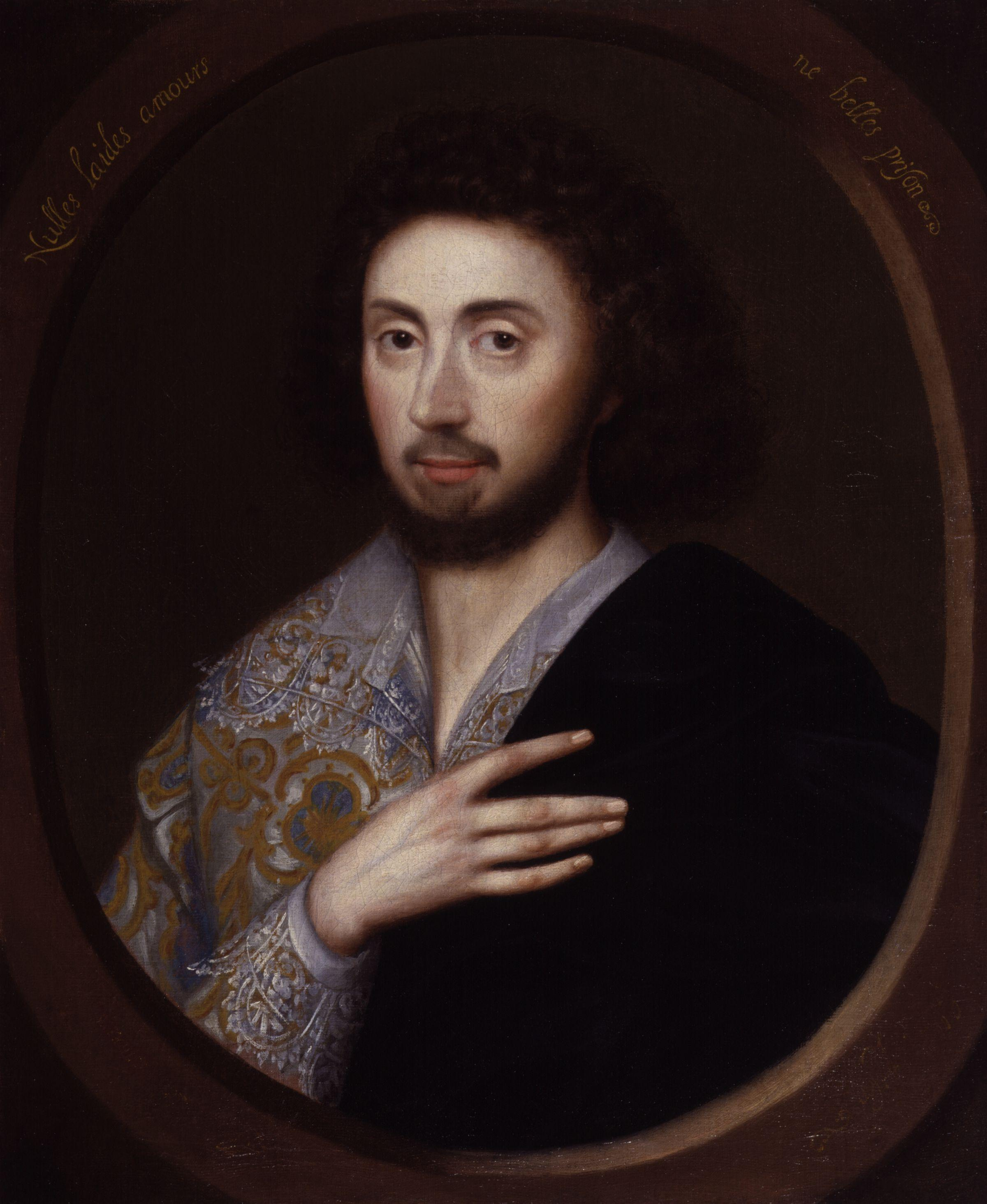 Edward Herbert, 1st Baron Herbert of Cherbury, by Isaac Oliver (died 1622). All images in this batch have been confirmed as author died before 1939 according to the official death date listed by the NPG.